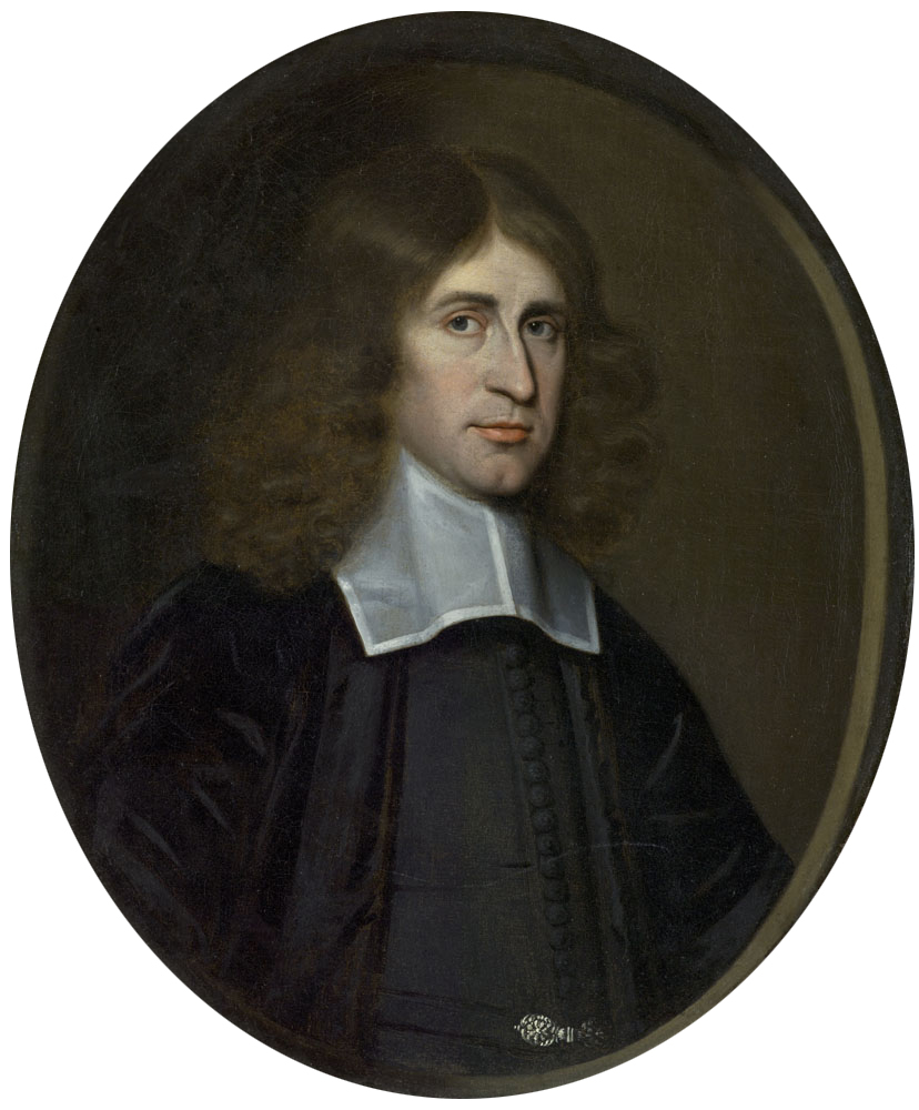 Oil on canvas Collection: National Galleries of Scotland